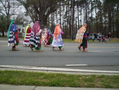 Local Shriners participating in the annaul Rattlesnake Roundup Parade in Claxton, Evans County, Georgia in March of 2009.